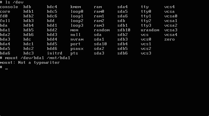 A "Not a Typewriter" error message under TinFoil Hat Linux. Used to demonstrate this error on the Wikipedia page of the same name.